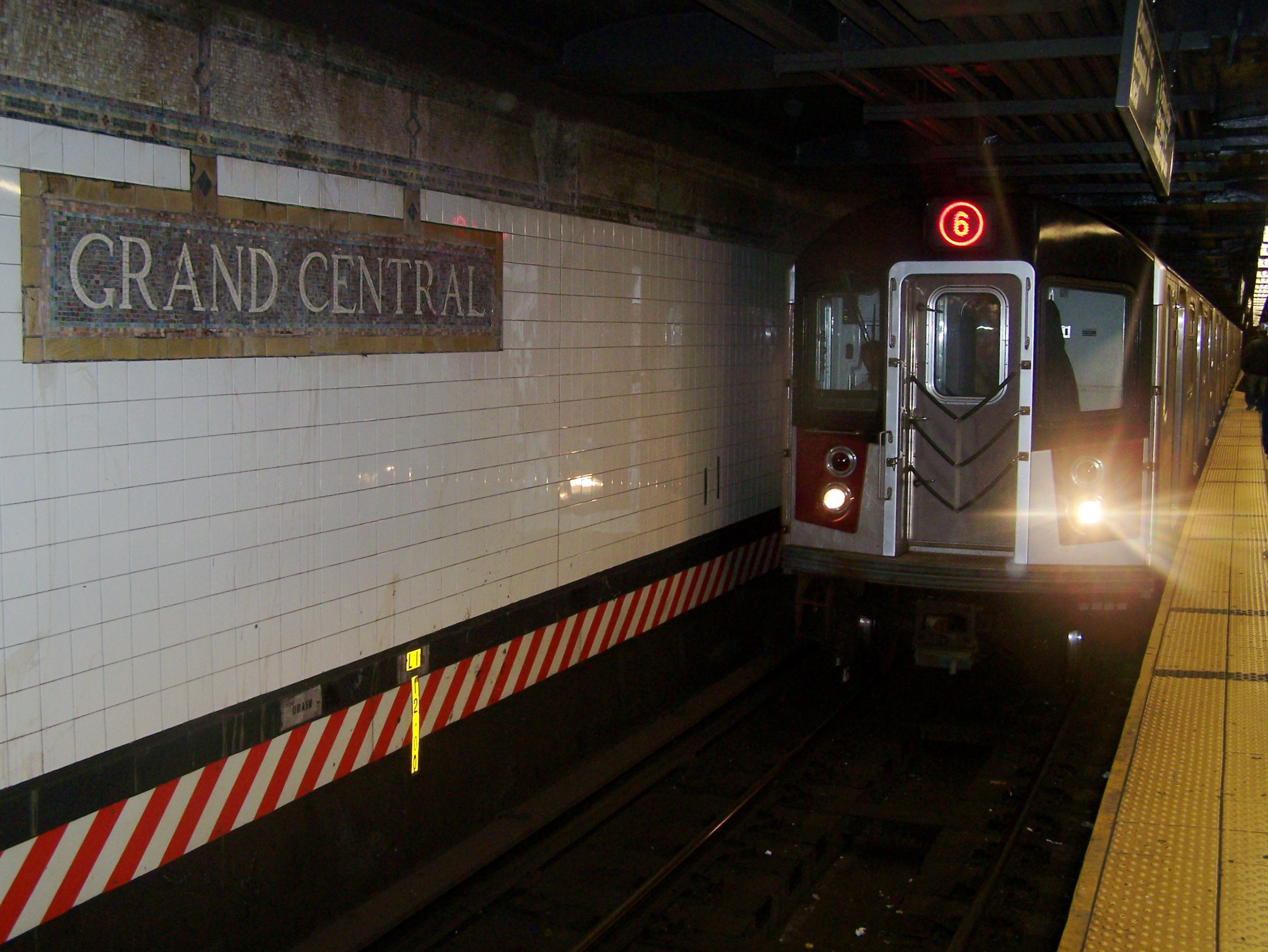 A number 6 train pulling into the Grand Central–42. Street station at the Lexington Avenue Line.